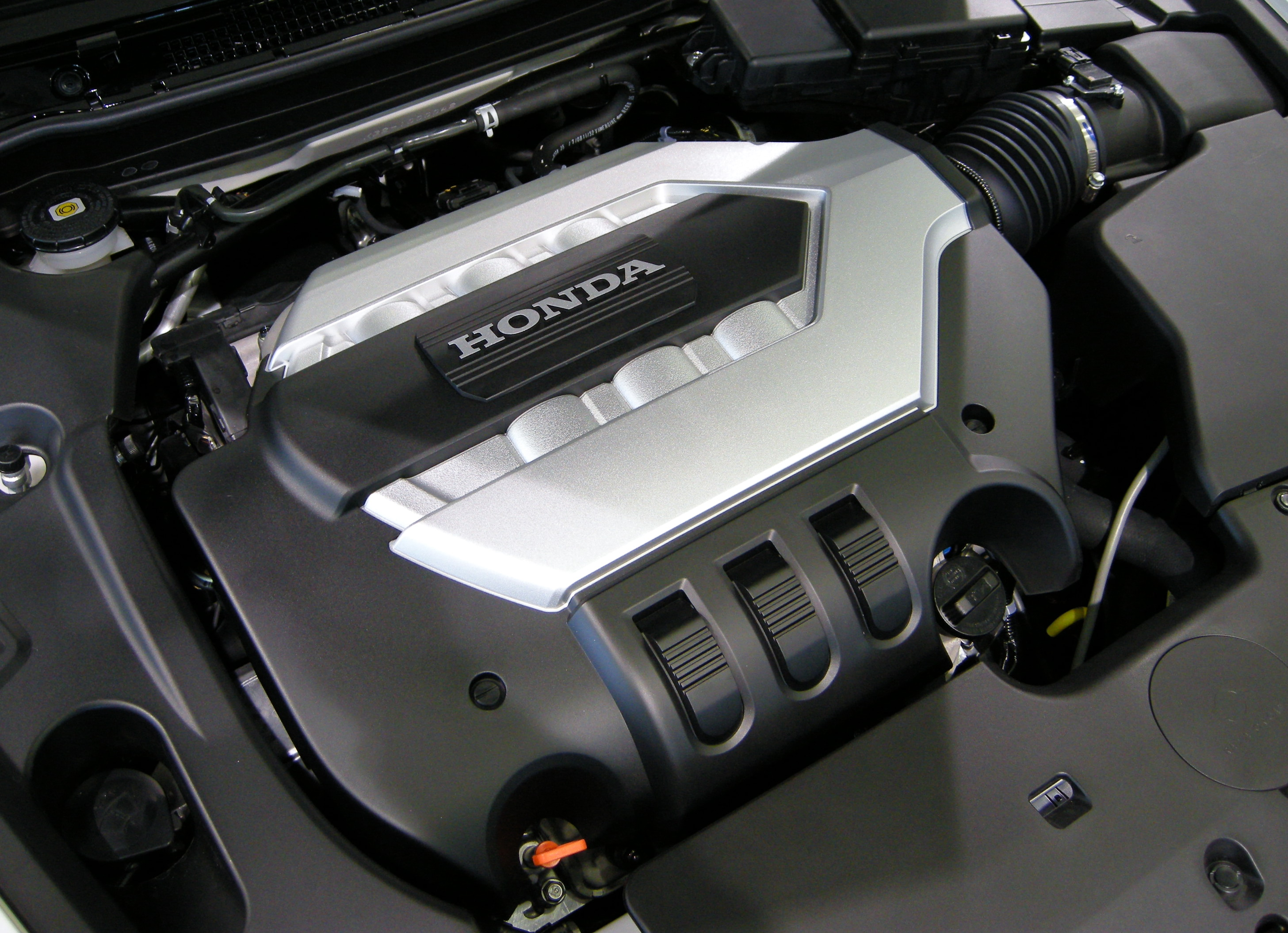 Honda J37A 3.7L V6 SOHC VTEC Engine installed in 2008 Honda Legend